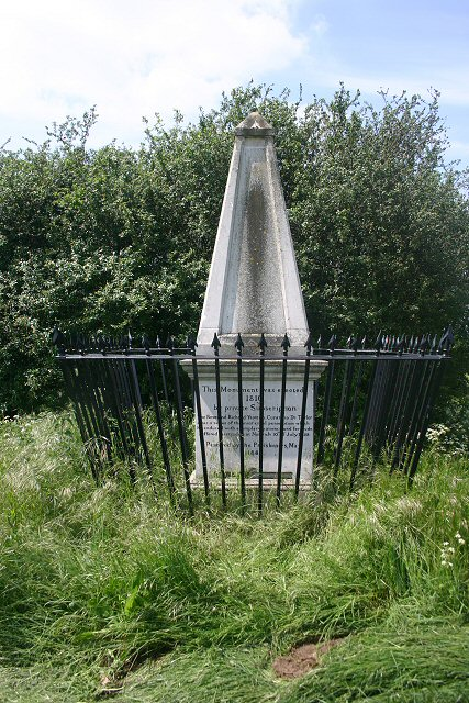 The Taylor Memorial, Hadleigh The Grade II Taylor Memorial, a pyramidal stone erected in 1818, commemorates the burning of Hadleigh’s rector here on Aldham Common in 1555.